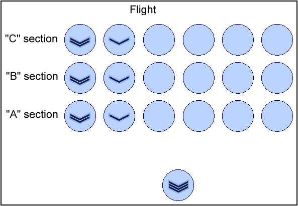 Australian Air League - Diagram of the structure of a flight.